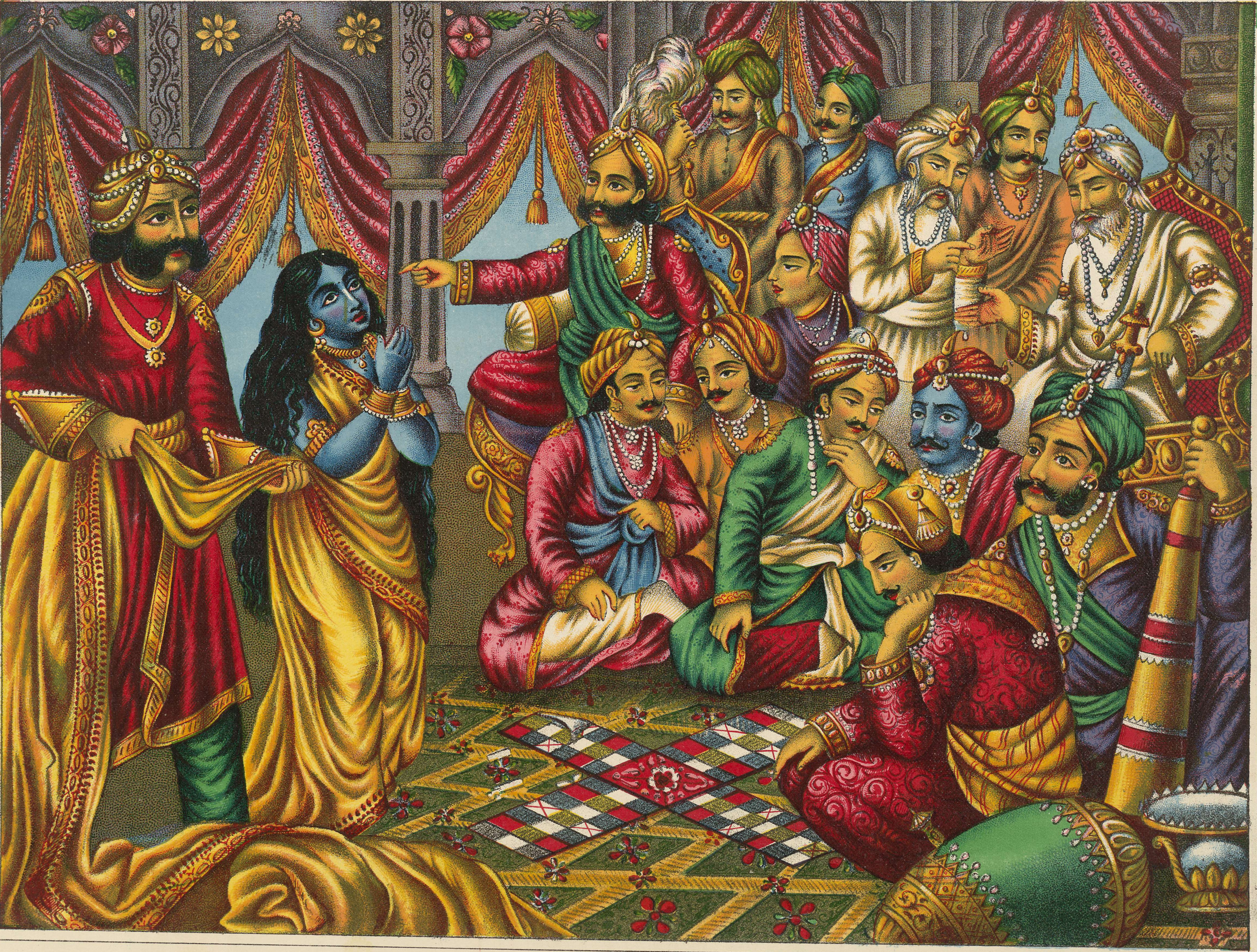 Album of popular prints mounted on cloth pages. Colour lithograph, lettered, inscribed and numbered 18. Draupadi, the wife of all five Pandava brothers in the Mahabharata, is presented to a pachisi game where Yudhishthira, the king of Hastinapura, had gambled away all his material wealth. He offered his wife in a bet; Draupadi prays to Krishna for protection while a court attendant attempts to remove her sari. This event was one of several instigating factors in the Mahabharata war.